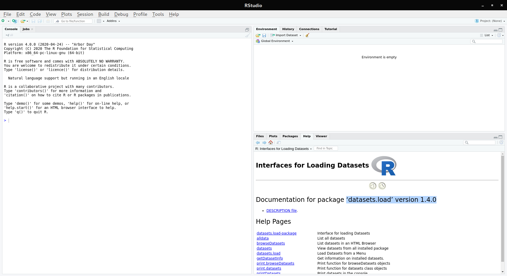 The R package datasets.load version 1.4.0 running in RStudio with R version 4.0.0